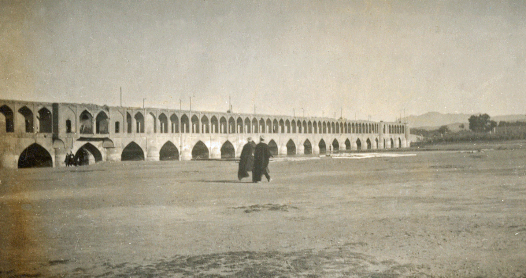 Isfahan (Iran): the Si-o-se bridge